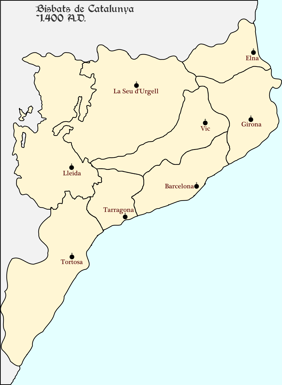 Extent of catalan dioceses around year 1400